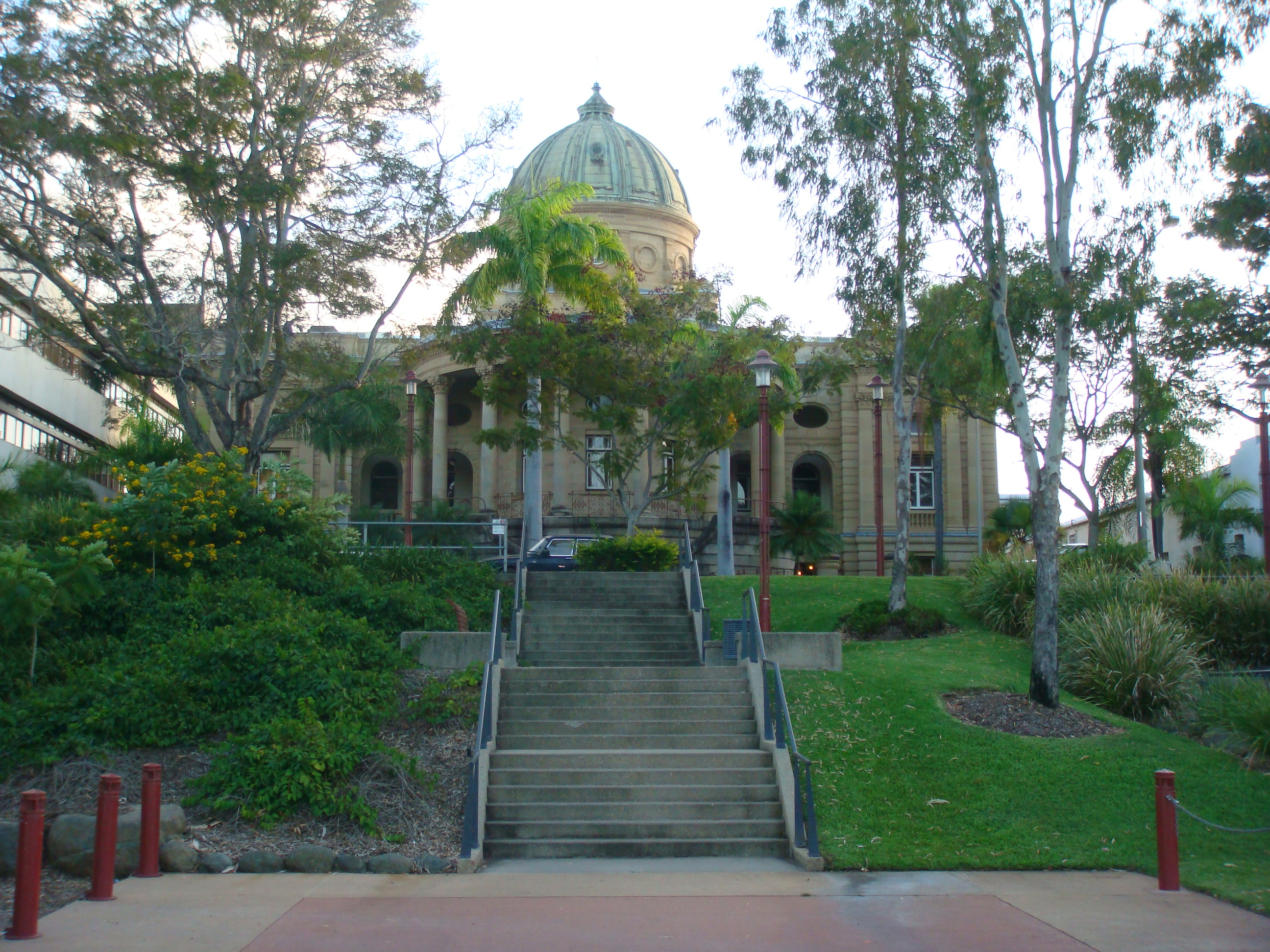 Customs house in Rockhampton, Queensland. Taken by the uploader and released into the public domain. Location and time details are in the EXIF header.